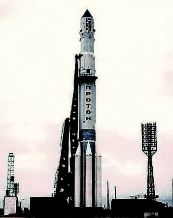 Proton-K/Block-D rocket with Granat space telescope